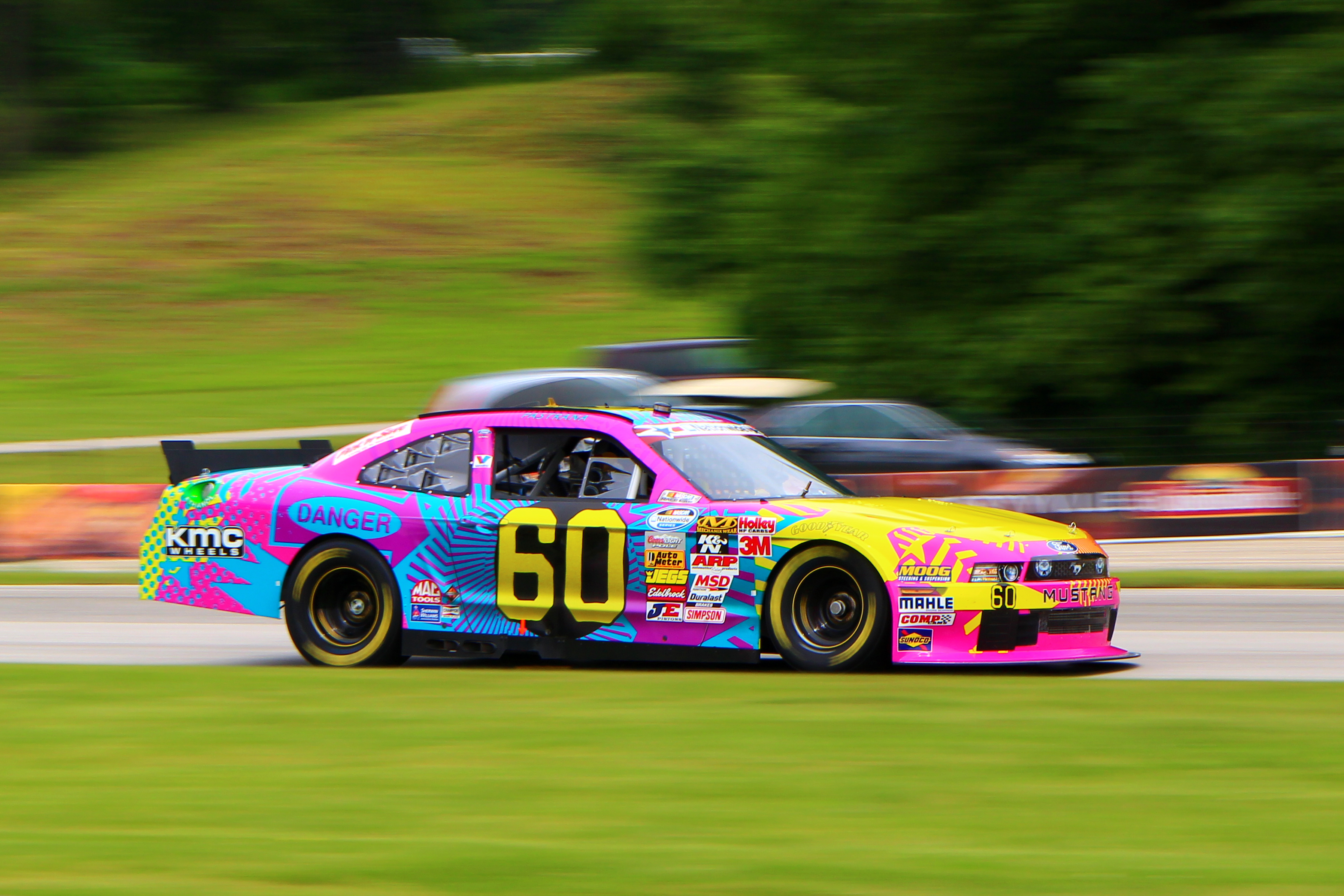 Travis Pastrana in his Ford Mustang at the 2013 Johnsonville Sausage 200 Nationwide Series race at Road America.